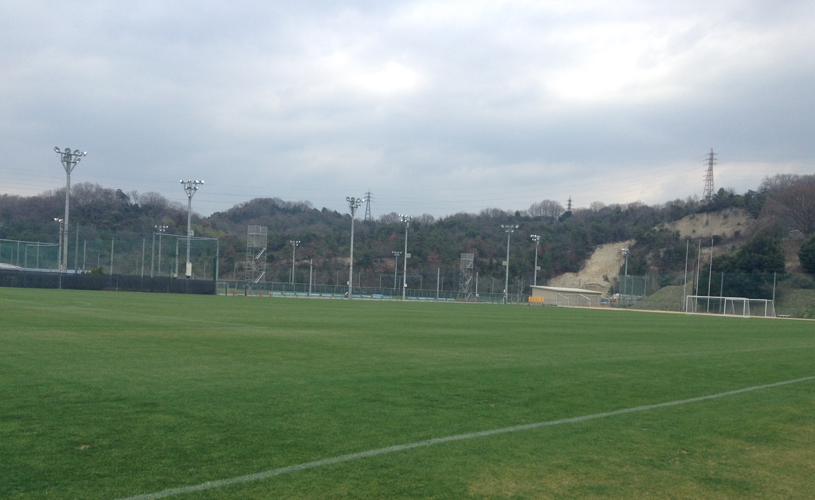 Sanga Town Joyo